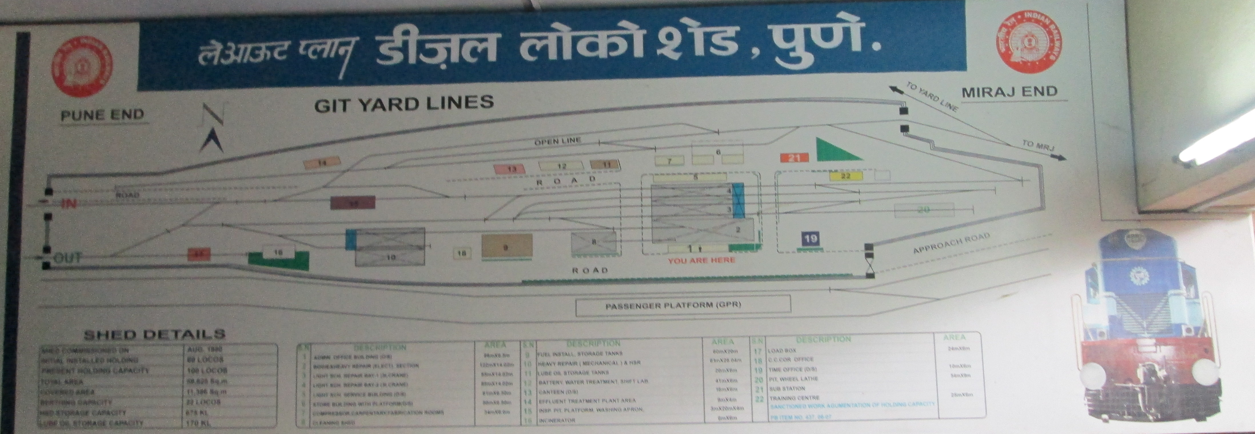 This is the map of the Shed.